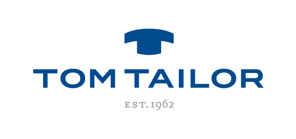 Current TOM TAILOR Logo (November 2014)